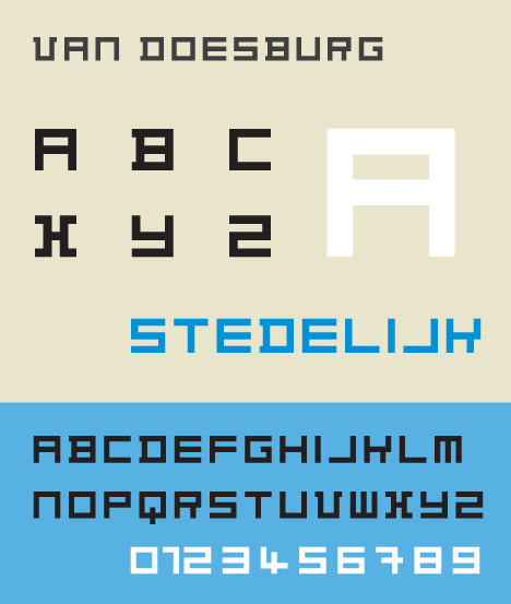 Specimen of the typeface Architype Van Doesburg, Jim Hood